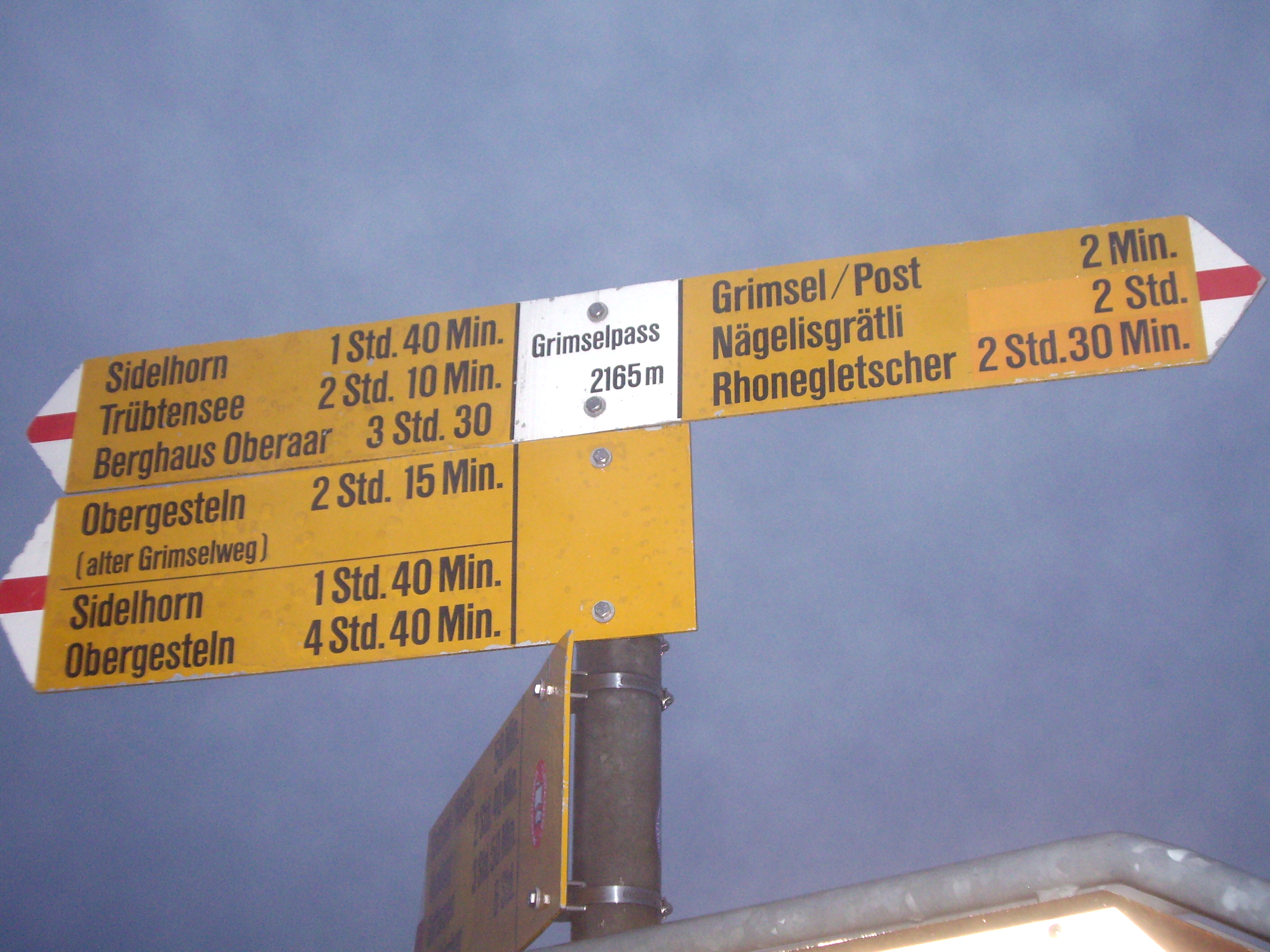 The sign that indicates the Grimsel Pass (night - 6:32 am - and foggy view)